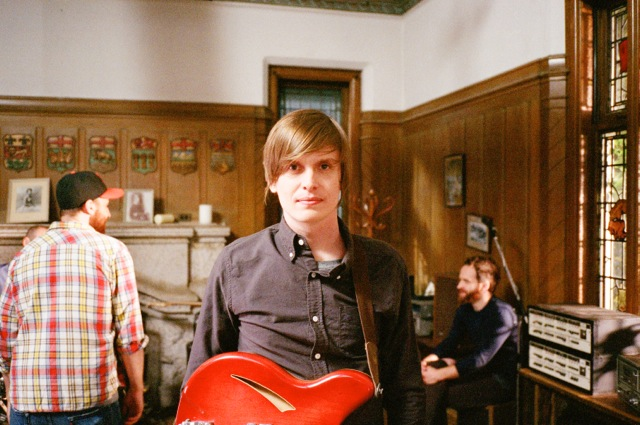 Chris Walla